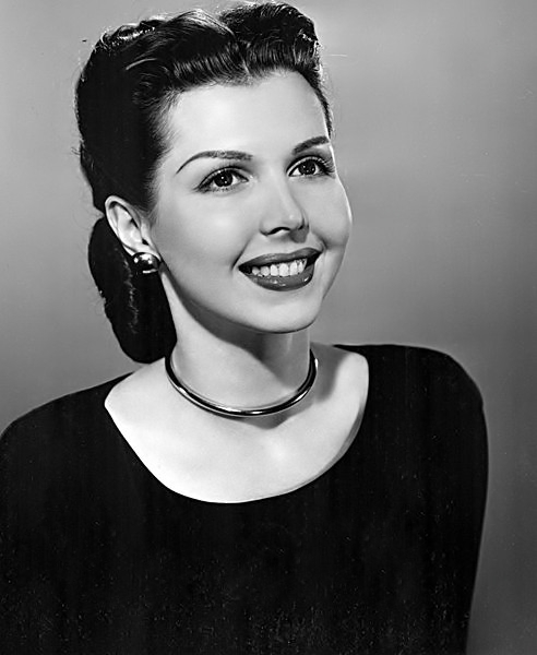 Publicity portrait of Ann Miller for film Easter Parade (1948)